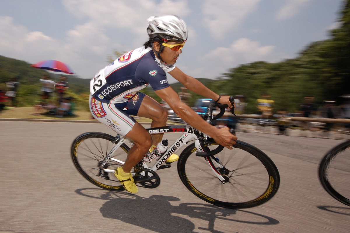 Takashi Miyazawa, Team Meitan-Honpo now.(he was Amica chips at this time) here is race report, learn Japanese! :-)